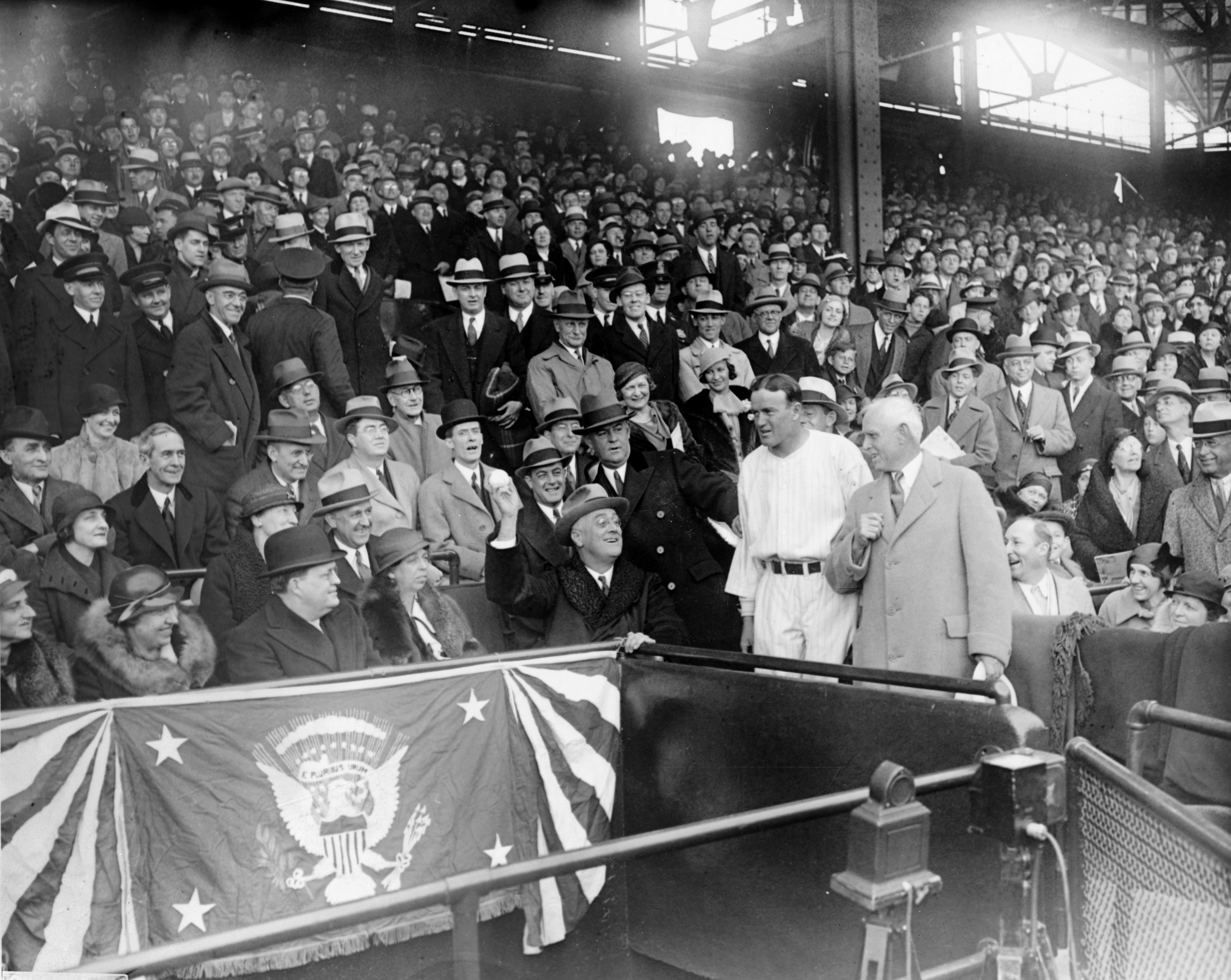 Photograph shows President Franklin D. Roosevelt seated in the presidential box at Griffith Stadium, Washington, D.C., preparing to toss a baseball on to the field while the crowd looks on. The Washington Senators defeated the Philadelphia Athletics 4–1.[1]